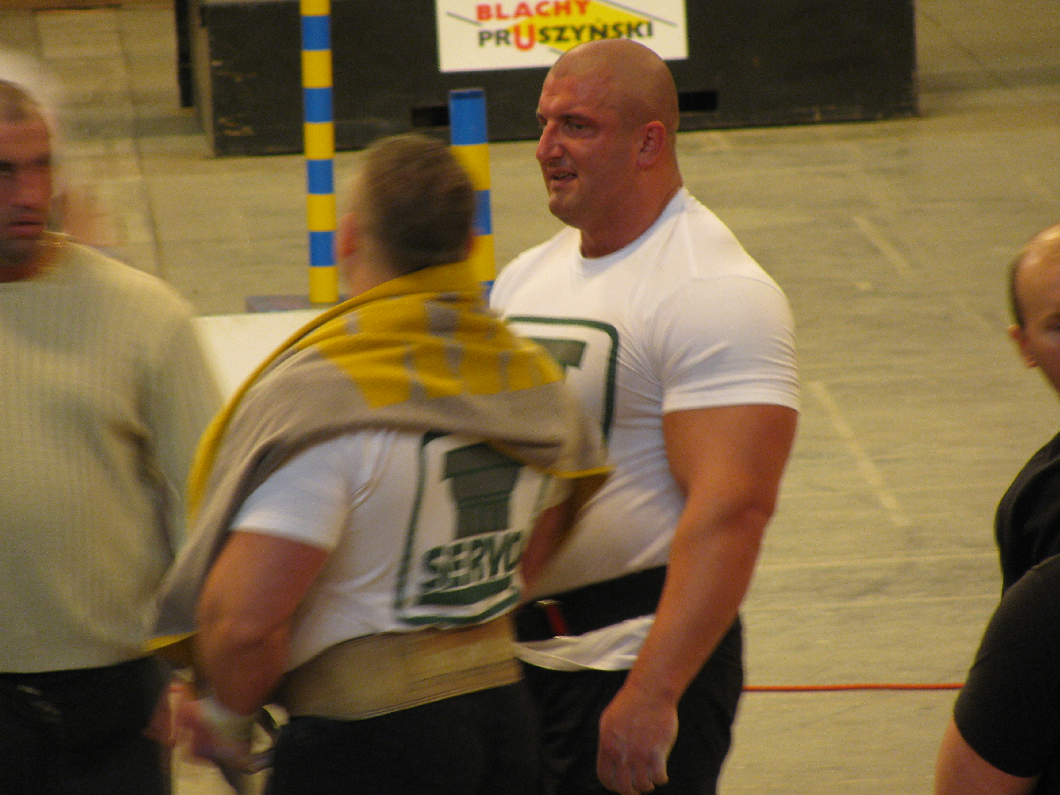 Slawomir Orzel - a strength athlete from Poland